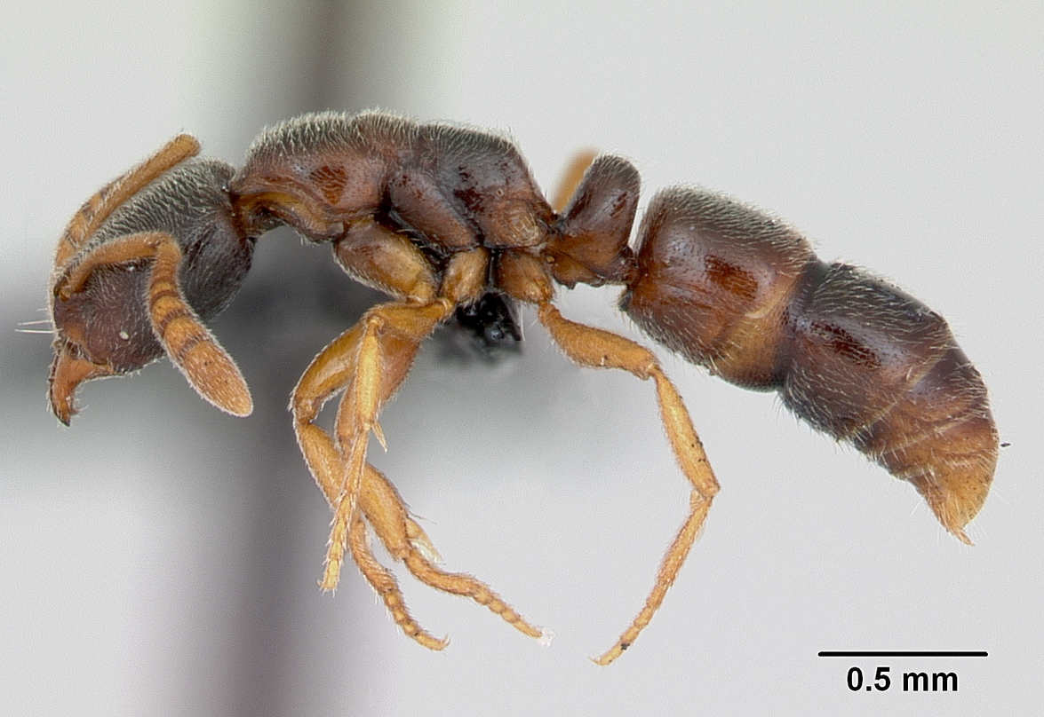 Profile view of ant Ponera coarctata specimen casent0172740.